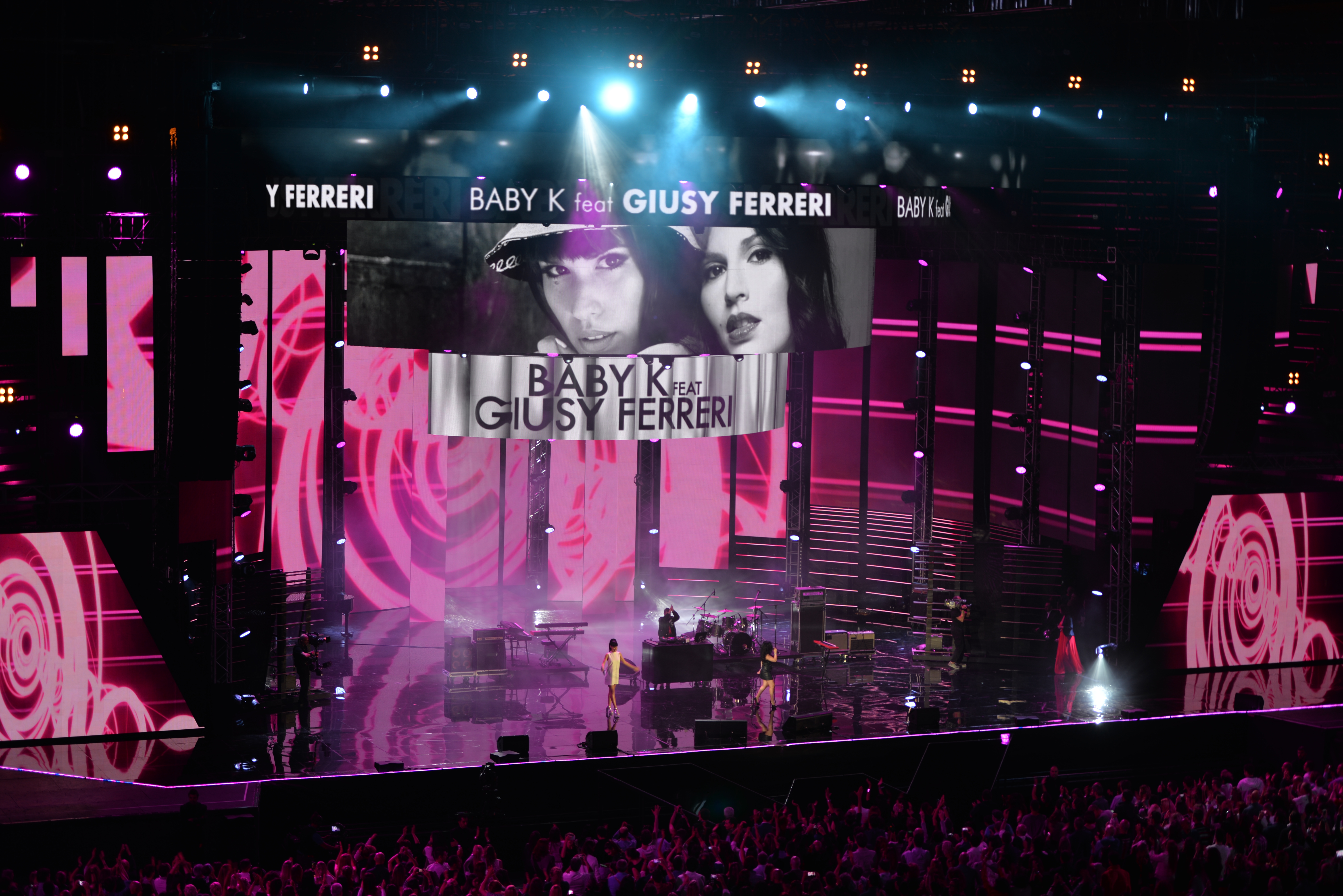 Baby K and Giusy Ferreri during the Wind Music Awards 2016 ceremony at Verona Arena